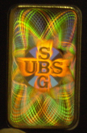 A Kinebar